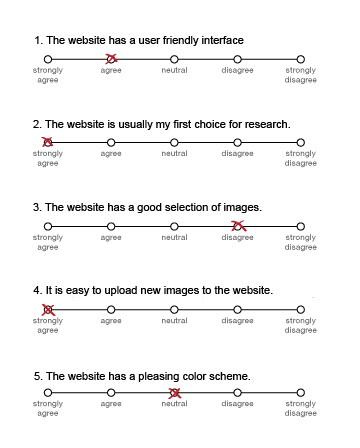 This is an example Likert Scale using five Likert Items pertaining to wikipedia.